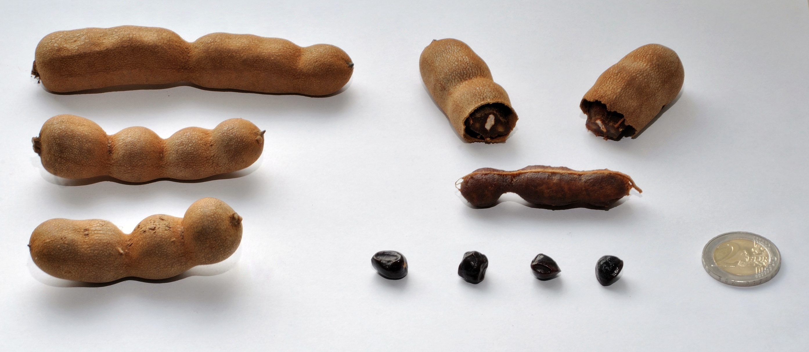 Tamarinds (Tamarindus indica) from Thailand – shucks, fruit flesh and pips